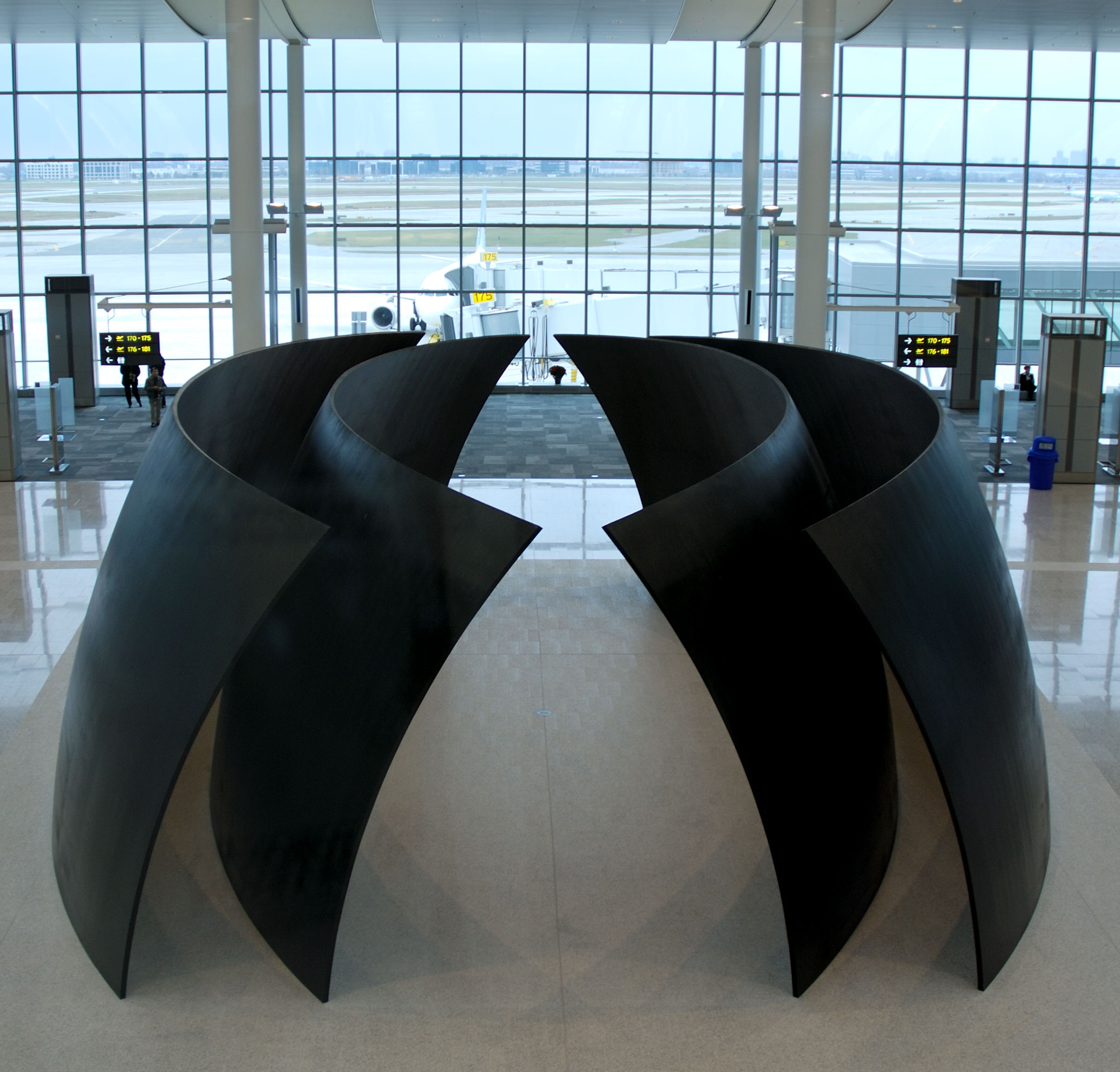 Sculpture by Richard Serra in Terminal 1 Pier F at YYZ Toronto. The piece is over 12 metres long.